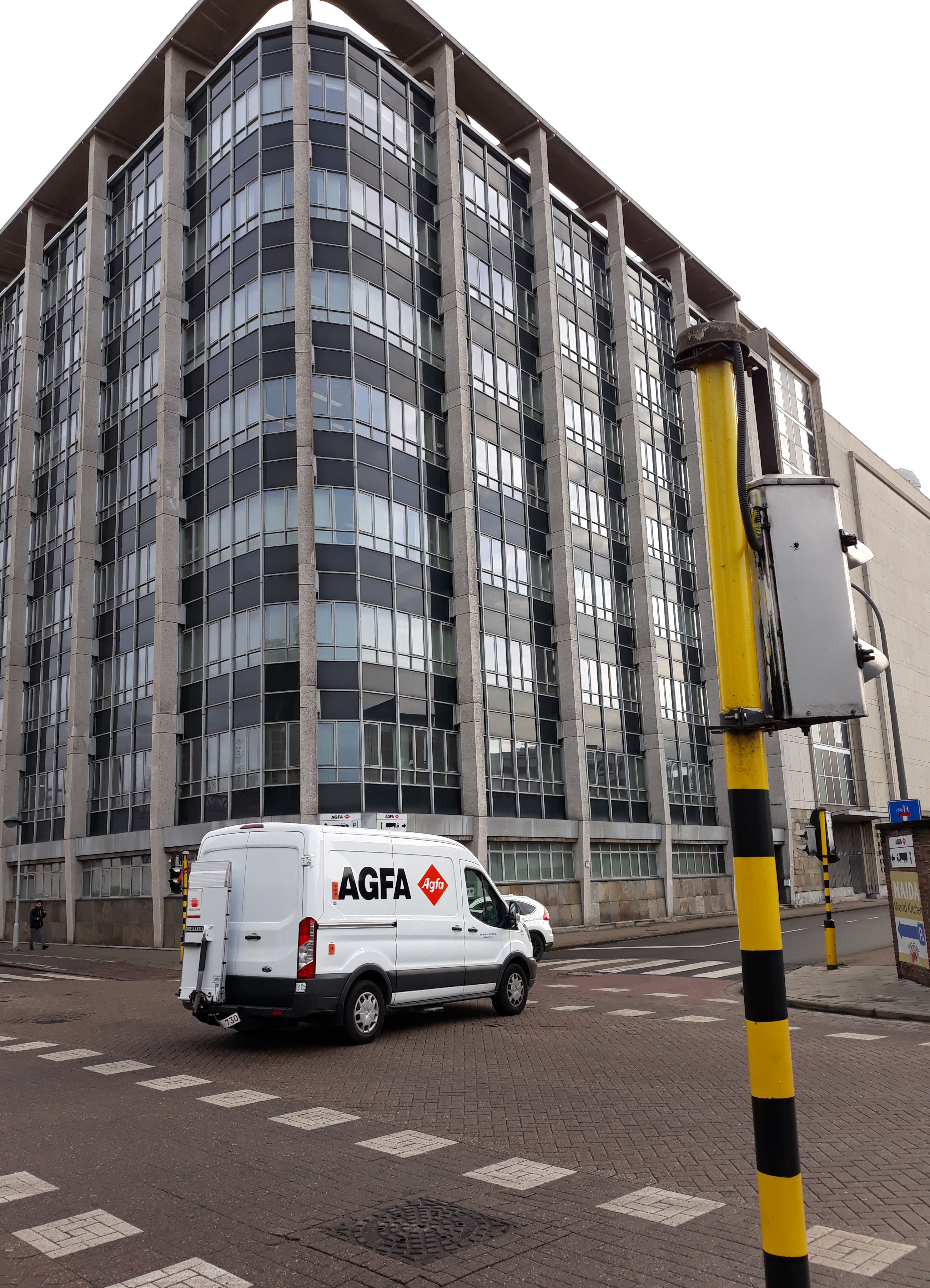 Agfa Office in Belgium